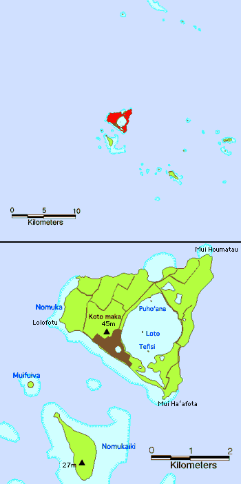 map of Nomuka Island, Haʻapai Group, Tonga, Pacific Ocean